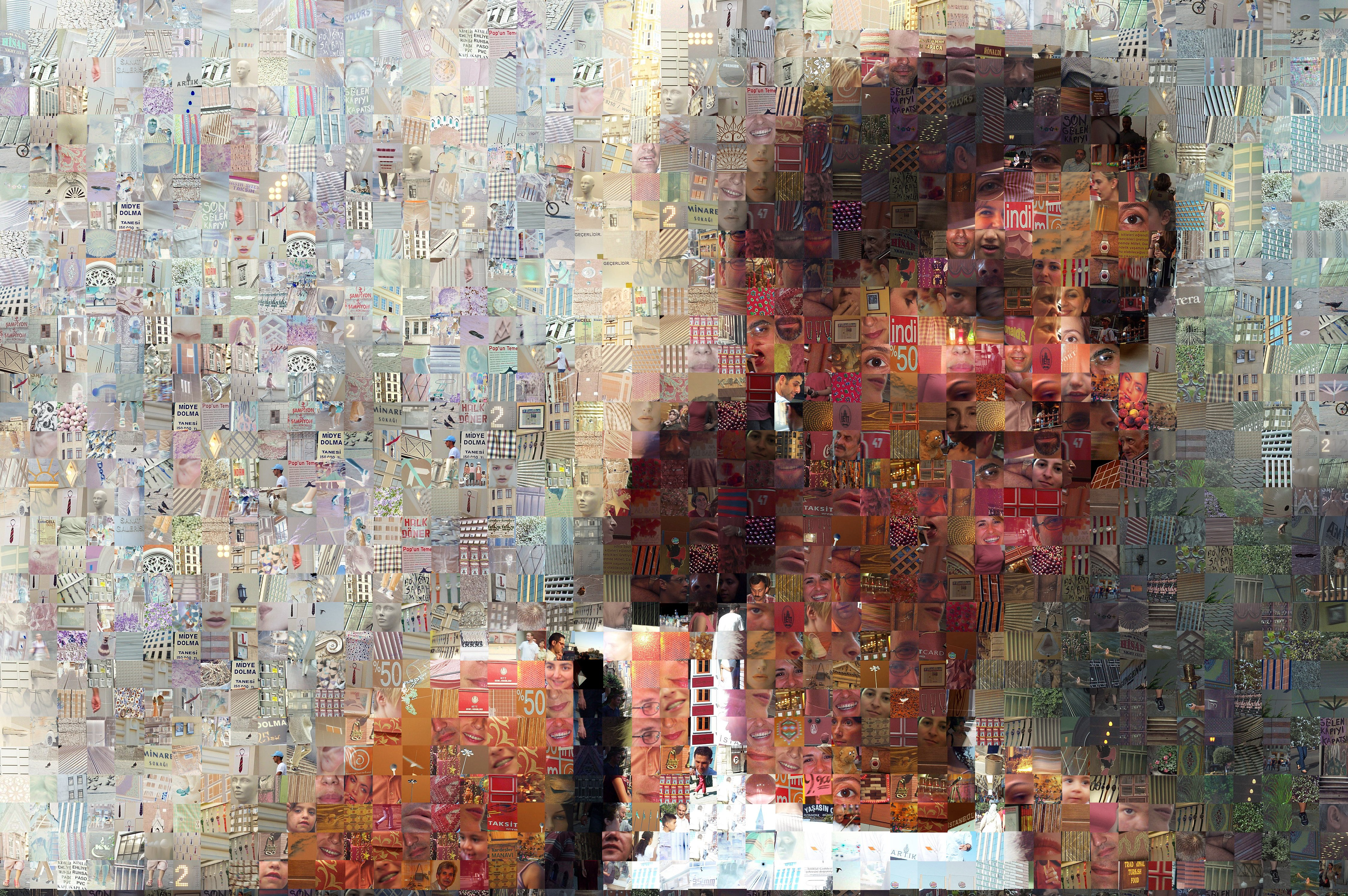 Imagemosaics from Beyoglu / Istanbul This JPG graphic was created with GIMP.